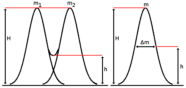 Mass spectrometry resolution. Peak resolution calculated from two partially joined peaks using the height of the overlapping area (left) and from one peak using full width at half maximum (FWHM).